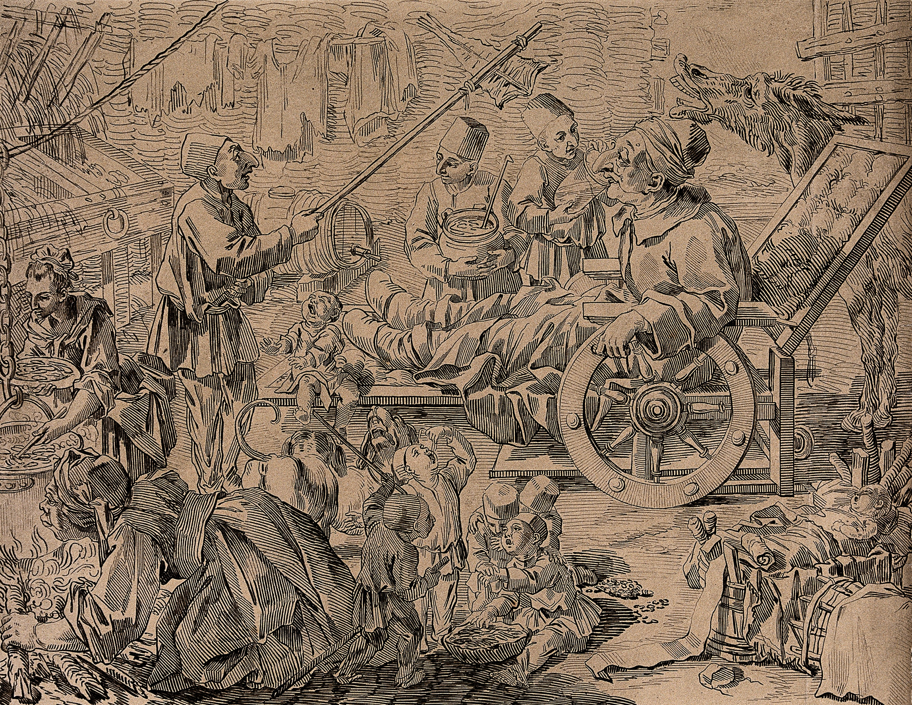 An old man is sitting in a cart being offered food, women are cooking and children are playing and eating. Etching by Arthur Pond after P.L. Ghezzi. Iconographic Collections